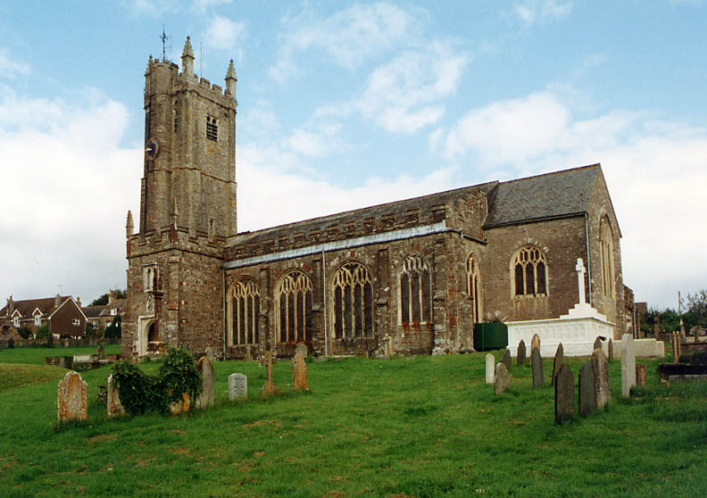 St Andrew, Harberton